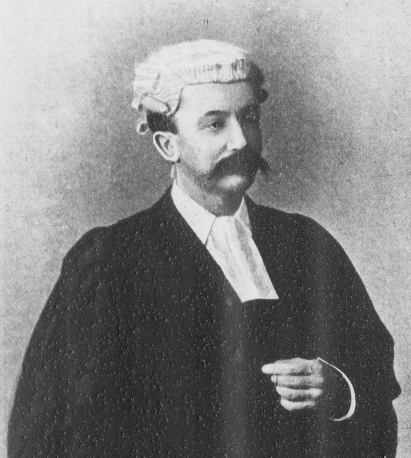 Portrait of Frederic Weatherly (4 October 1848 – 7 September 1929), an English lawyer, author, lyricist and broadcaster.